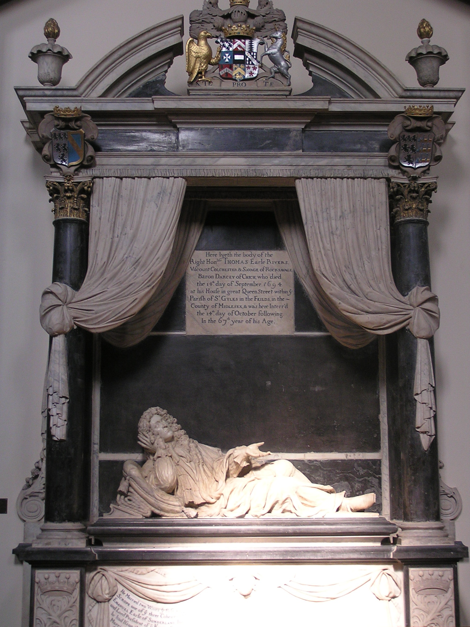 Monument in St Michael and All Angels parish church, Macclesfield, Cheshire, England to Thomas Savage, 3rd Earl Rivers